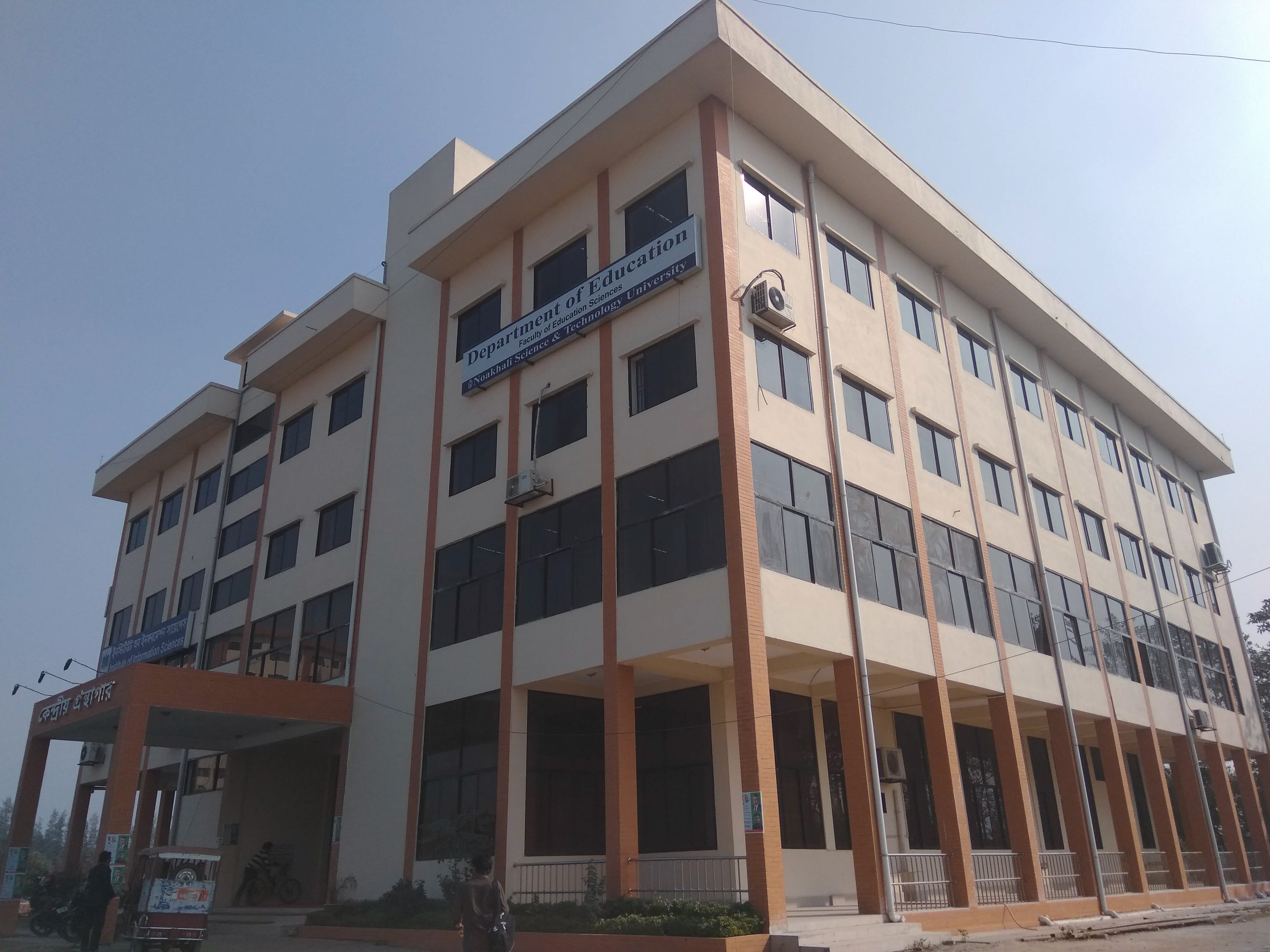 This is an image of a building which is central library of Noakhali Science and Technology University.